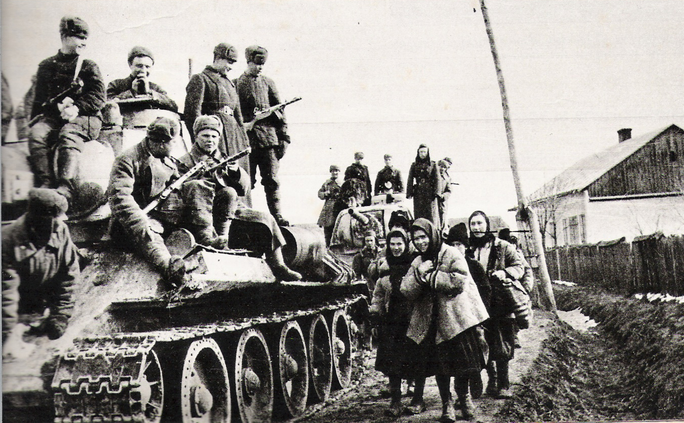 Soviet troops in a Ukrainian village (Eastern Front 1944)